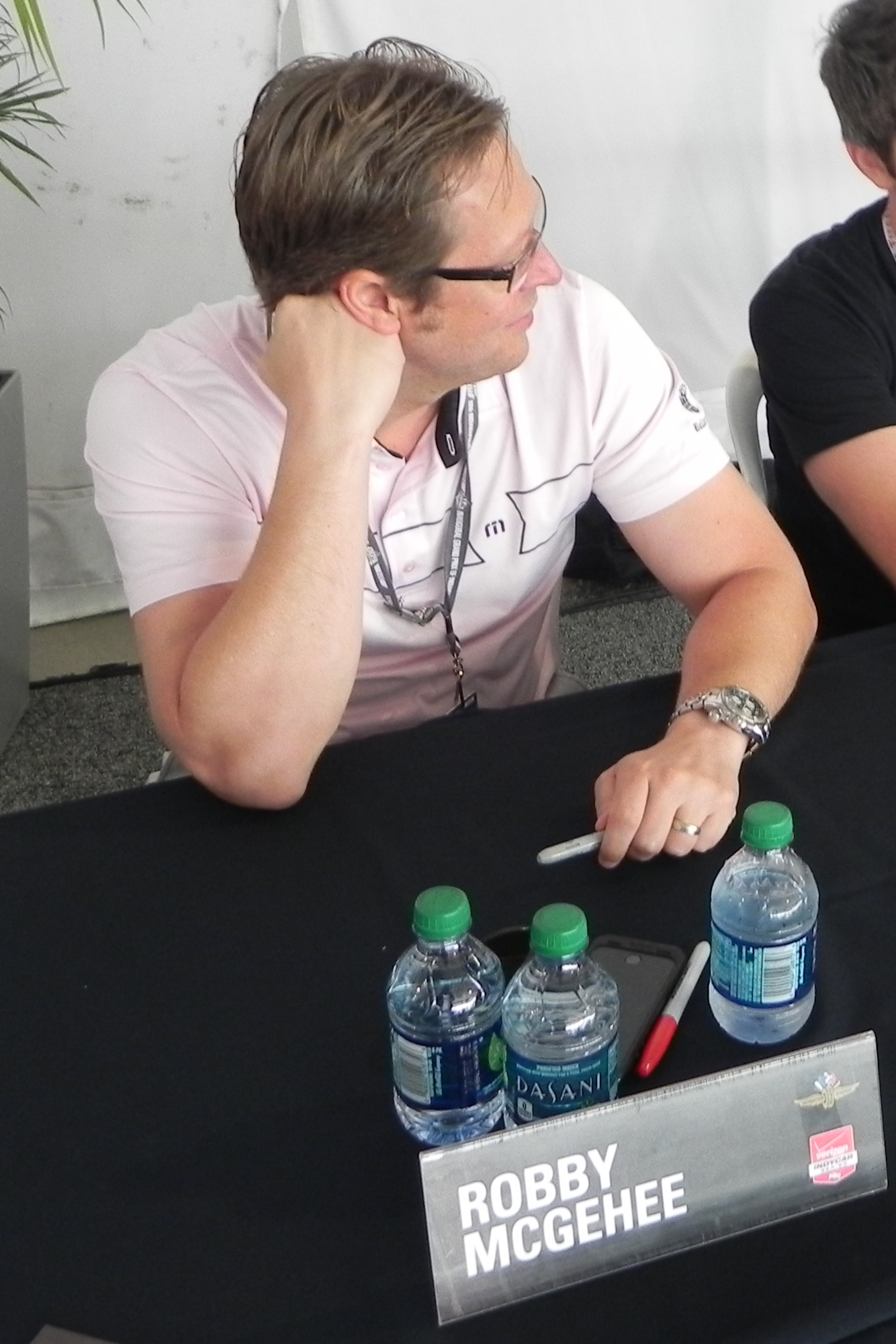 Indy500 driver Robby McGehee at the 2014 Indianapolis 500.